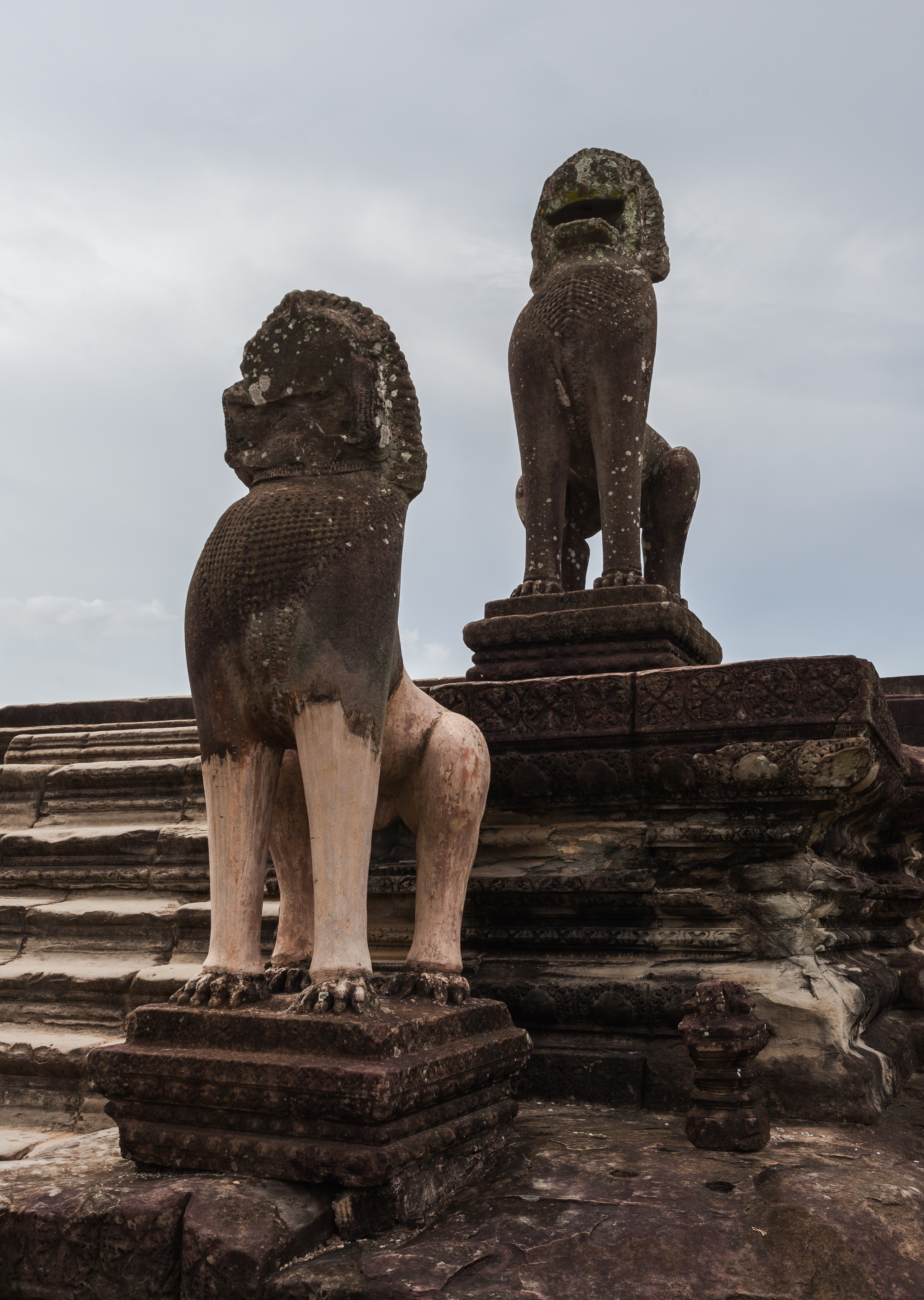 Angkor Wat, Cambodia